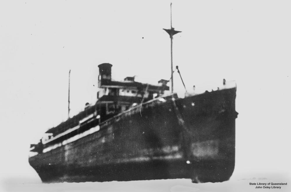 Cooma (ship). The S. S. Cooma went ashore at North Reef on 7 July 1926.